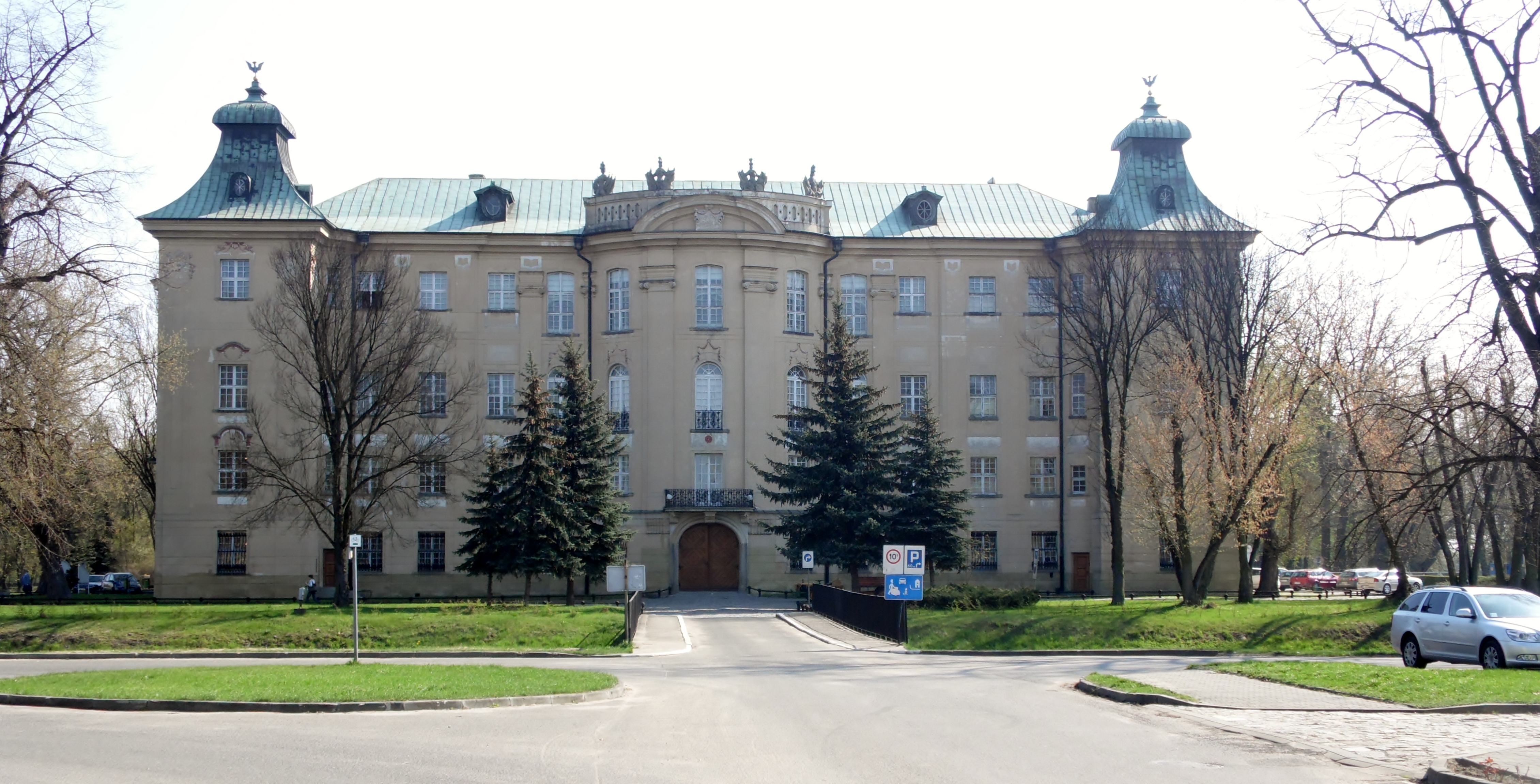 Castle of the seventeenth and eighteenth, twentieth century (p. Mon.) Rydzyna / area. Leszno / province. Greater Poland / Poland